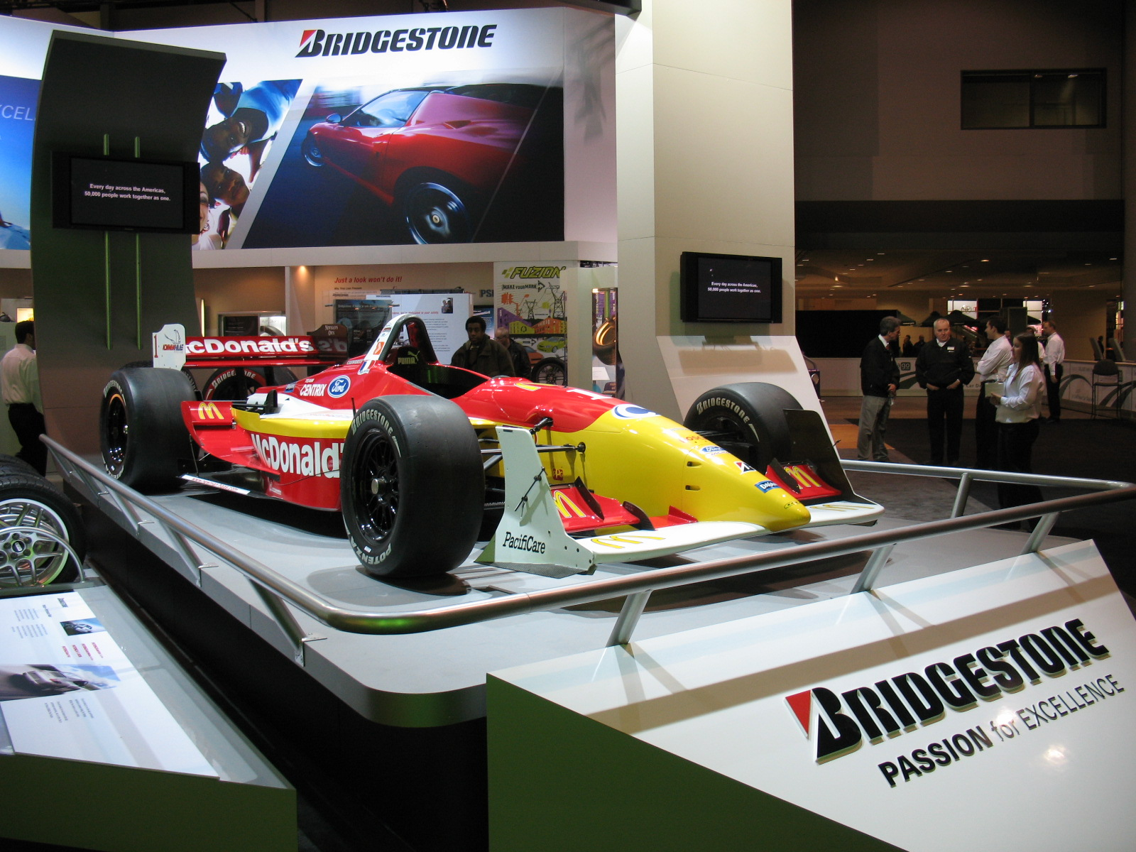 Ekspozycja firmy Bridgestone, Chicago Auto Show, 10-19 lutego 2006 Bridgestone exposition, Chicago Auto Show, 10-19 February 2006